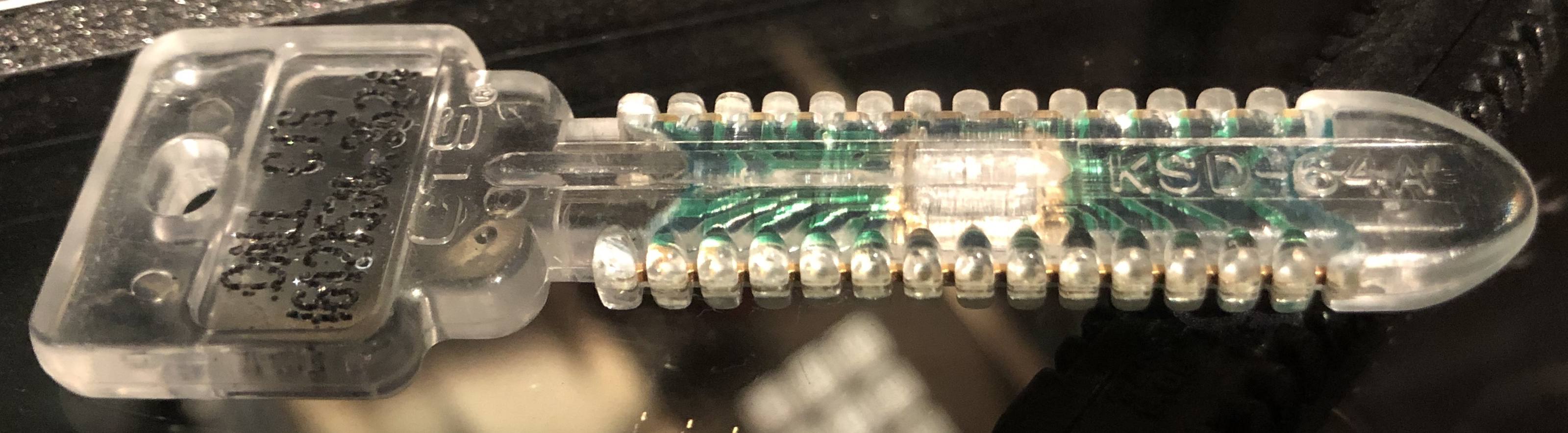 Object on display in U.S. National Cryptologic Museum